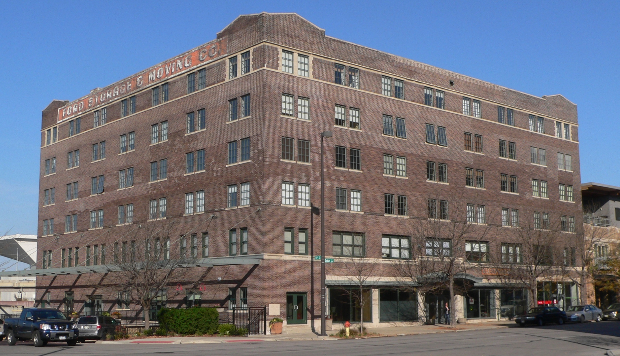 Simon Brothers building, located at 1024 Dodge Street (northeast corner of 11th and Dodge) in Omaha, Nebraska; seen from the southwest.